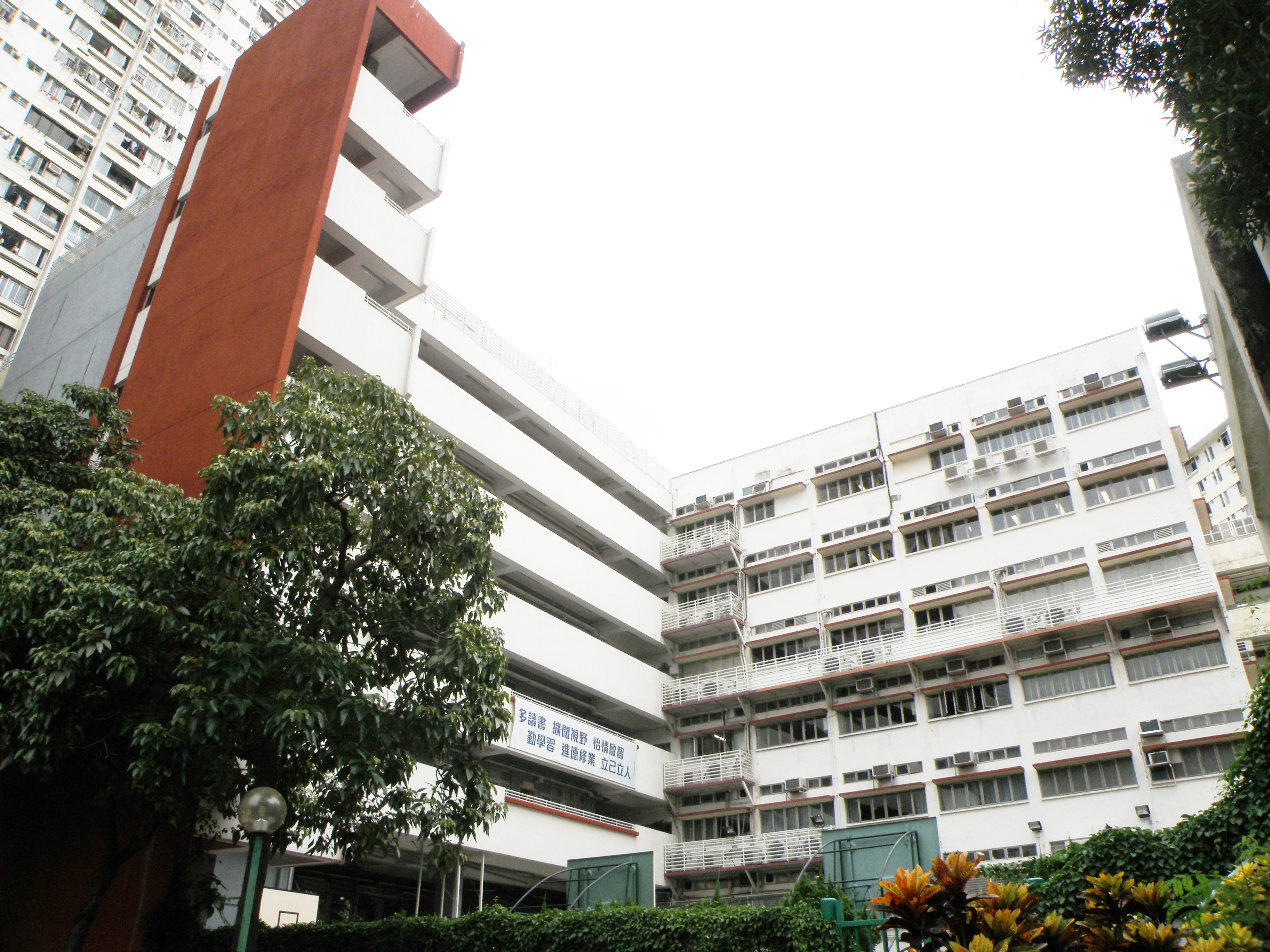 Shun Tak Fraternal Association Tam Pak Yu College in Tuen Mun, Hong Kong.